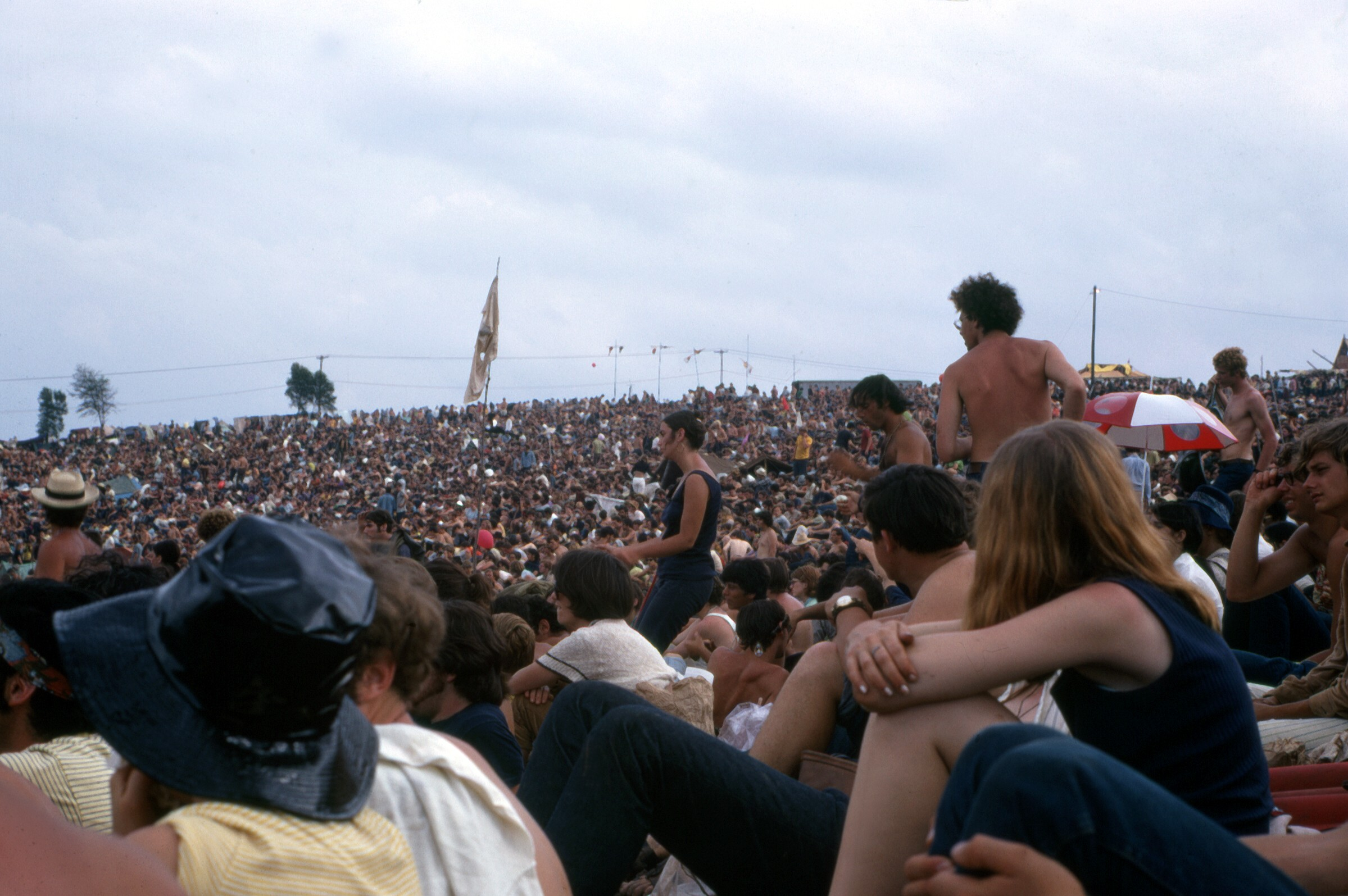 The popular image of Woodstock is of a rainy weekend. While there were storms, Saturday was a sunny warm day. Note how many people have their shirts off.